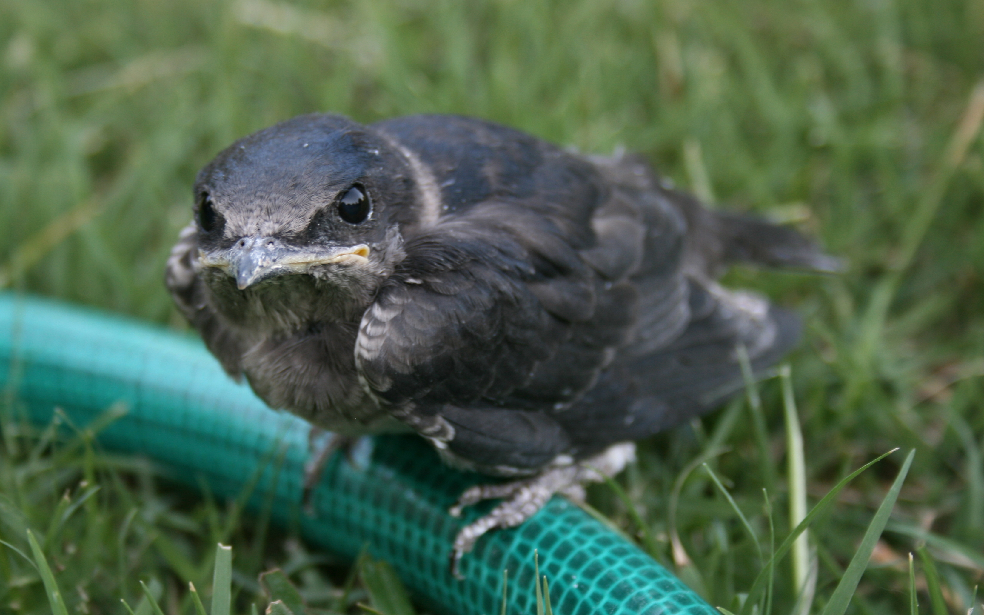 A juvenile Purple Martin in Oklahoma, USA. This young bird with a sibling flew from their Purple Martin house at a very young age, perhaps due to a relentless heat wave in Oklahoma.